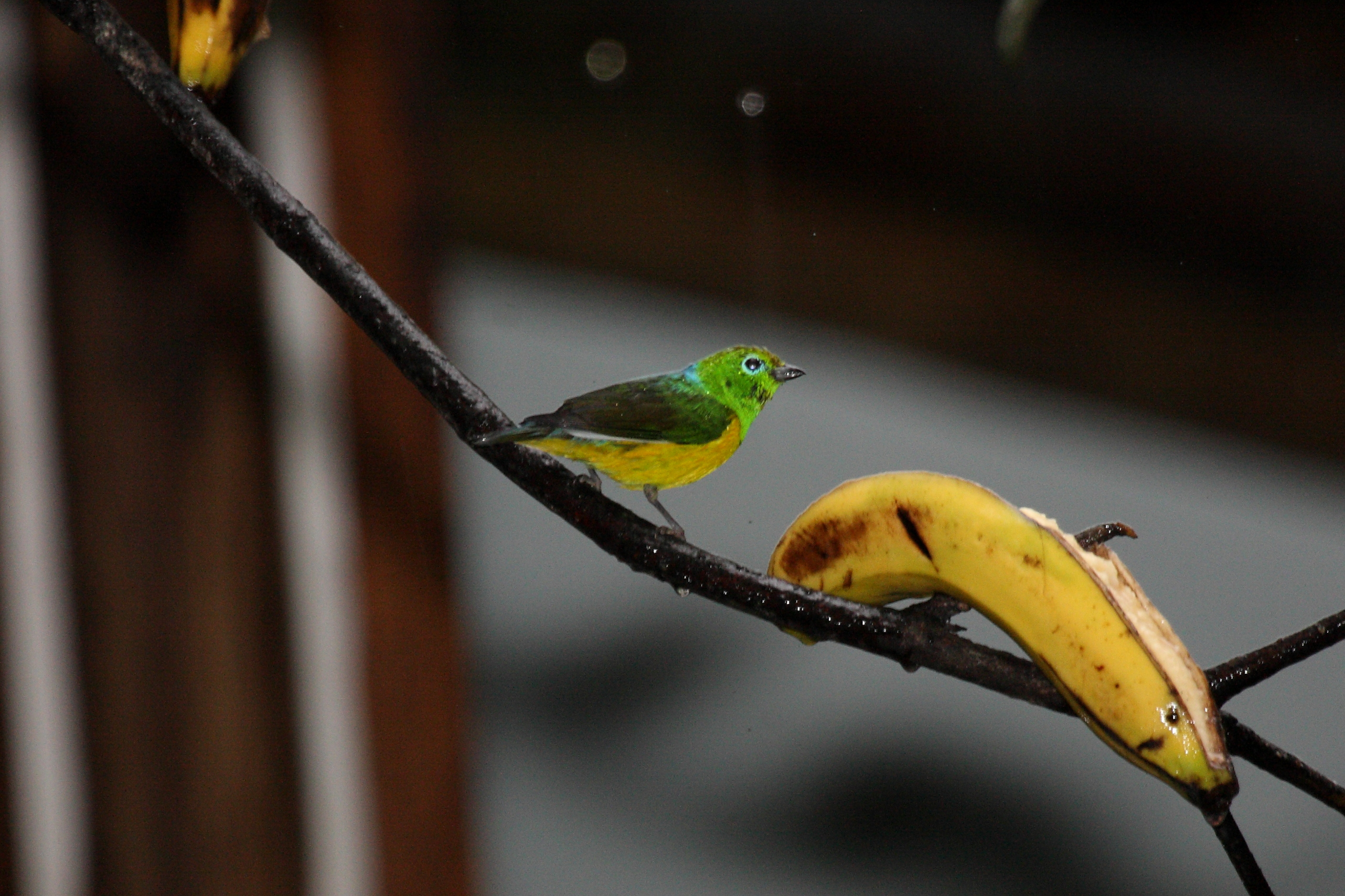 Photographed at Aguas Calientes, Peru.